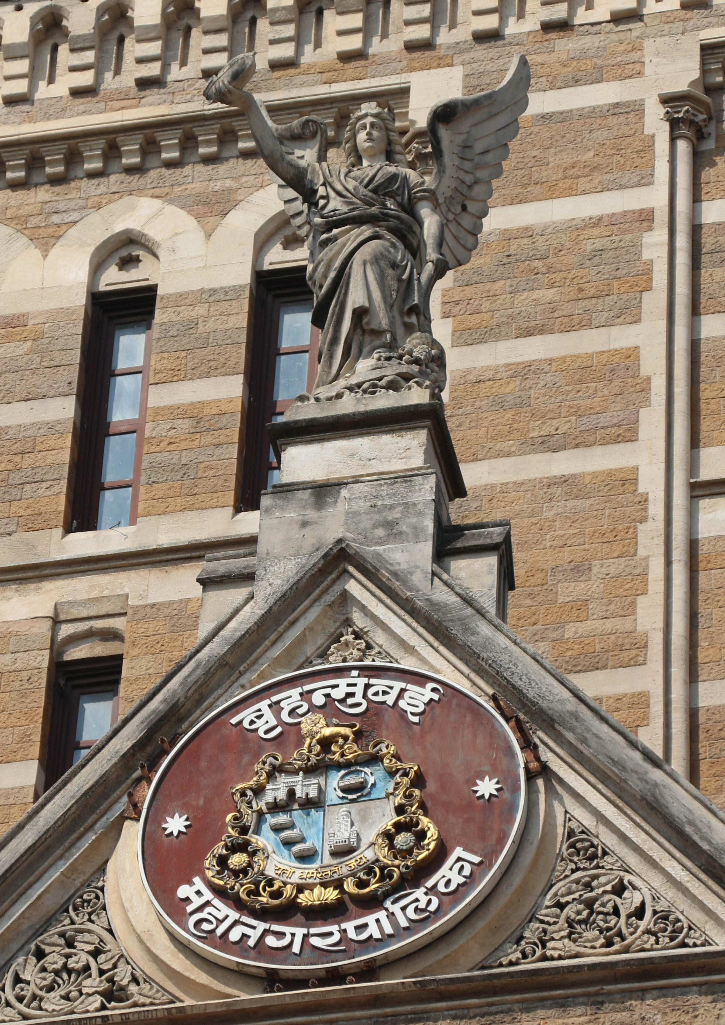 Gable of BMC Building with the coat of arms of Mumbai, Mumbai, India